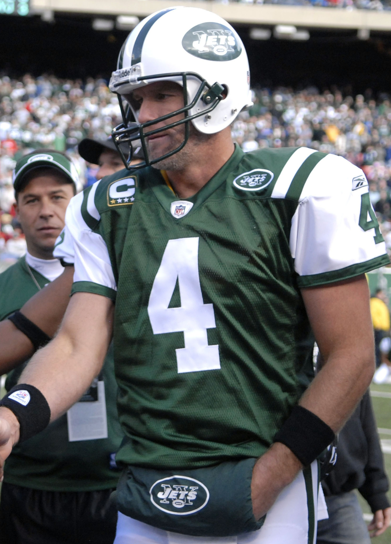 Master Chief Petty Officer of the Navy (MCPON) Joe R. Campa Jr. meets Brett Favre from the New York Jets during the coin toss on the field at the Meadowlands. The New York Jets took on the St. Louis Rams on Military Appreciation Day.